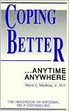 Cover photo of Coping Better by Dr. Maultsby